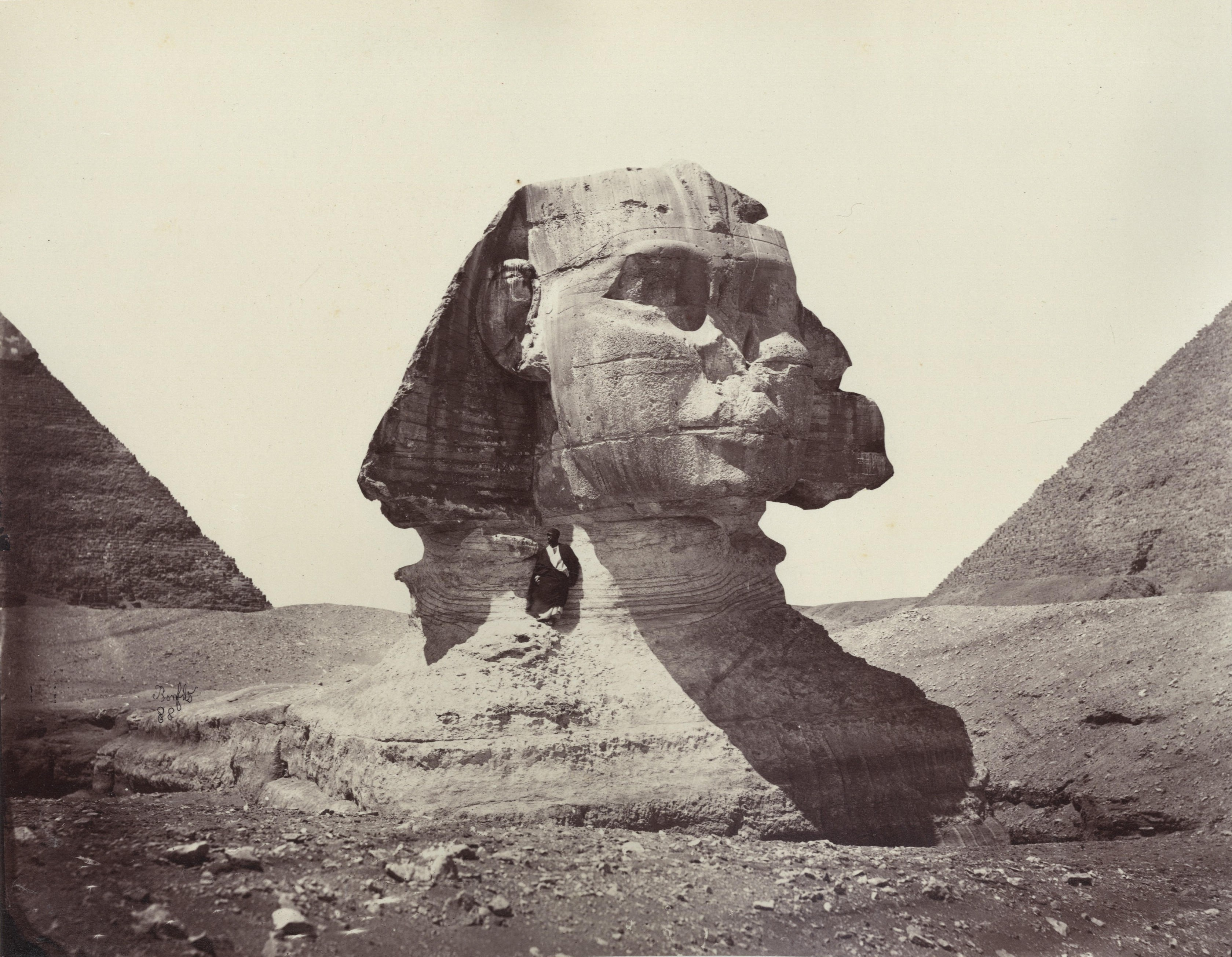 Great Sphinx of Giza